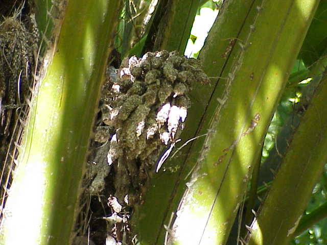 Species: Elaeis guineensis Family: Palmae Image No. 2